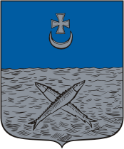 Belozyorsk (Vologda oblast), coat of arms (1781)